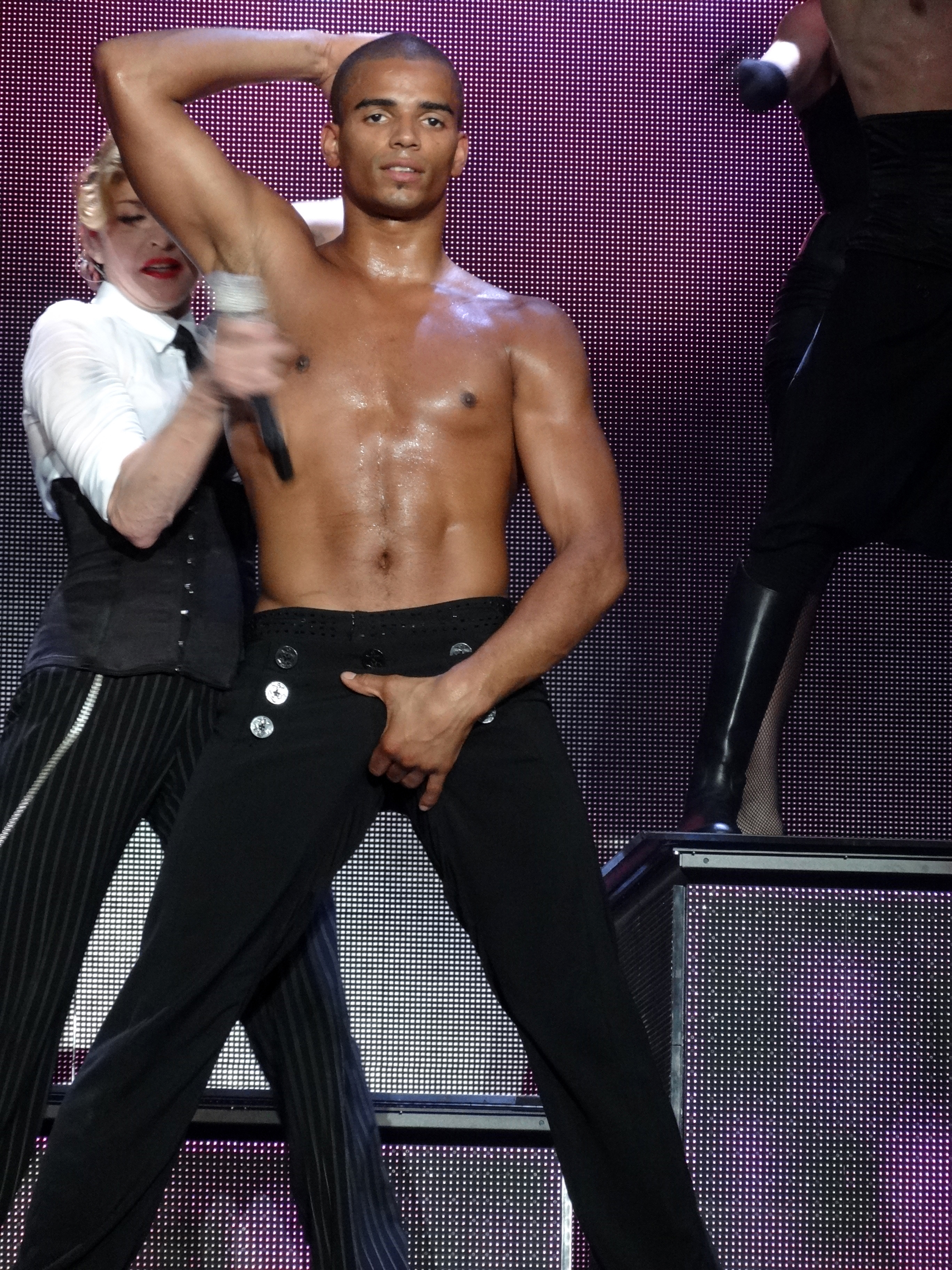 Madonna and dancer Brahim Zaibat during her concert in Nice as part of her MDNA Tour on August 21, 2012.